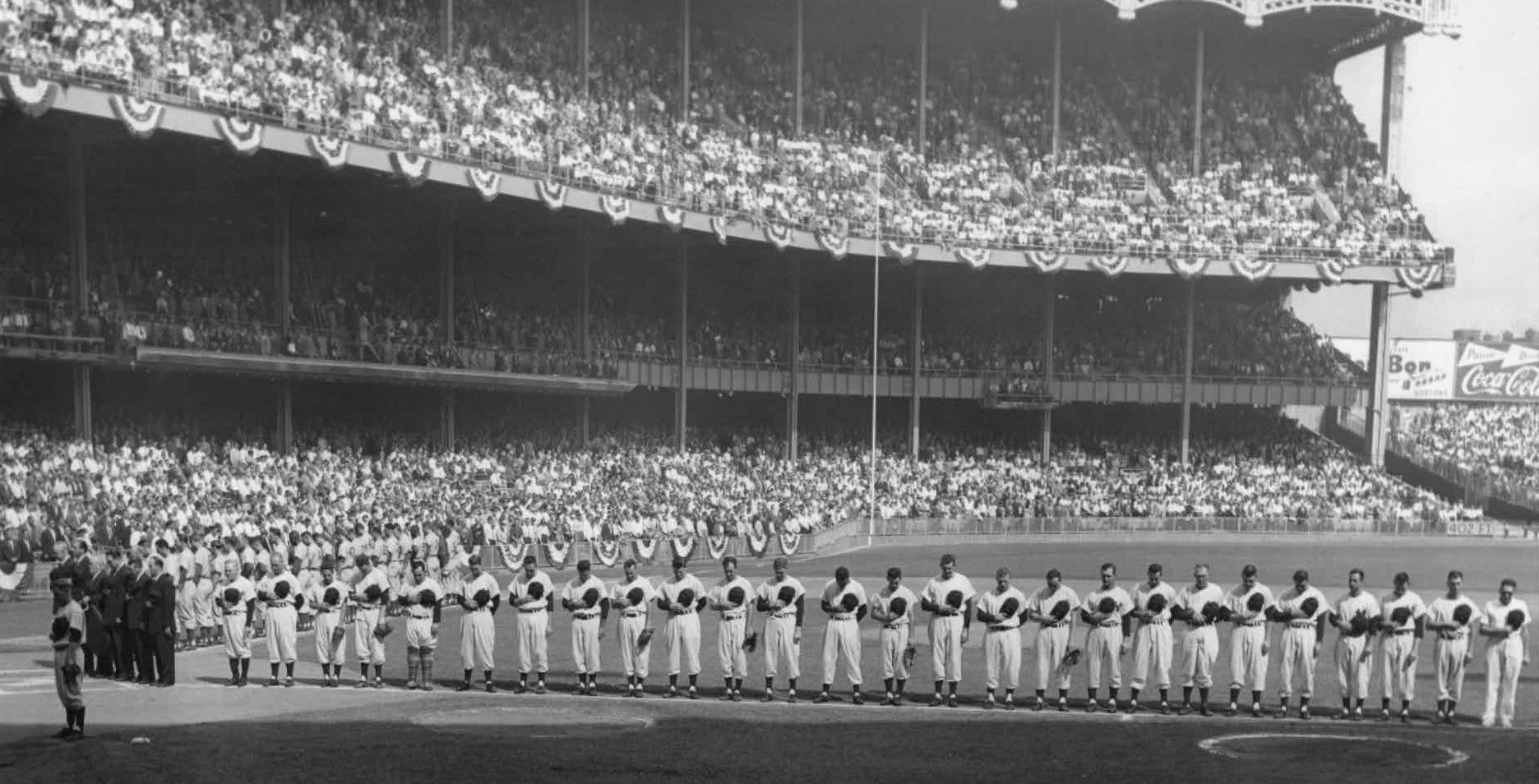 A moment of silence at Yankee Stadium before game one of the 1955 World Series for United States President Dwight D. Eisenhower, who suffered a heart attack earlier in the day.